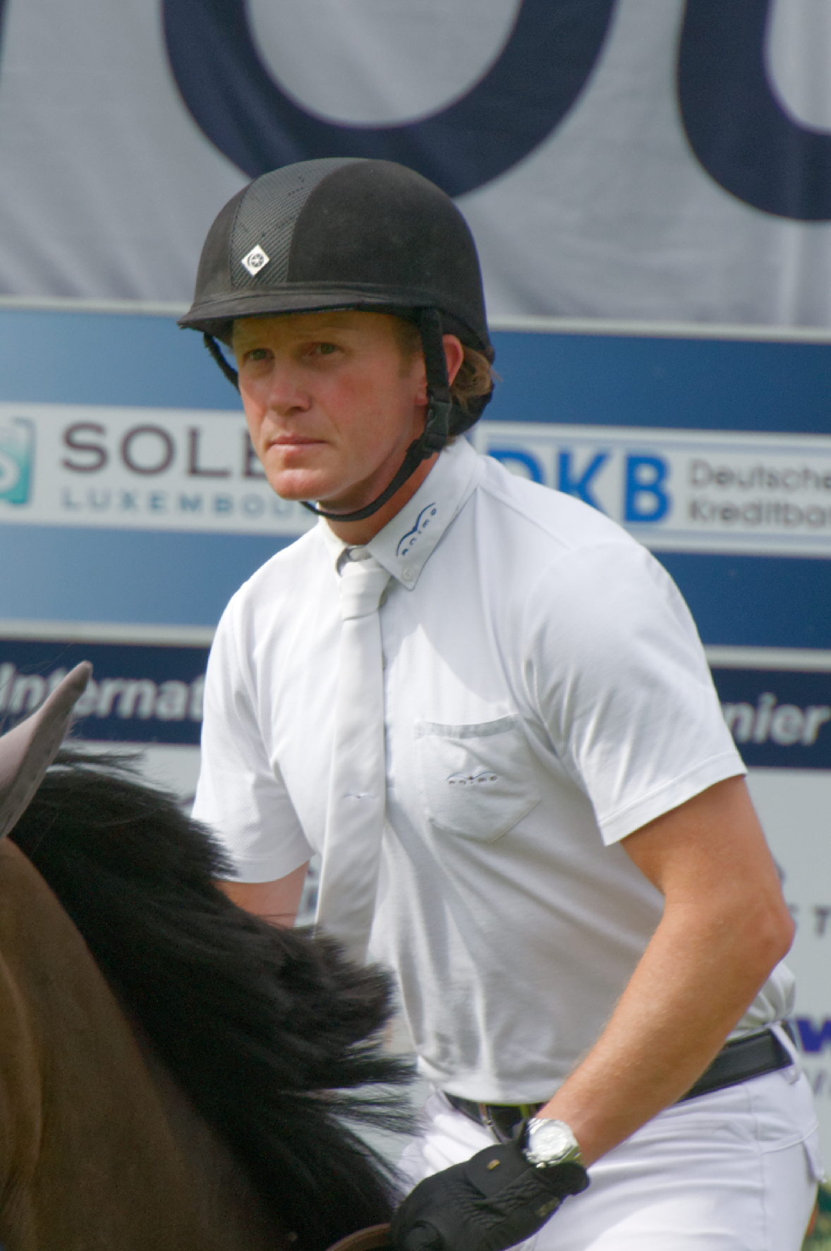 Internationales Pfingstturnier Wiesbaden 2014 The making of this document was supported by the Community-Budget of Wikimedia Germany.